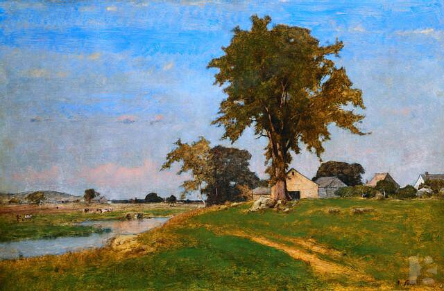 Old Elm at Medfield By George Inness (1825–1894) DescriptionAmerican painterDate of birth/death 1 May 1825 3 August 1894Location of birth/death Newburgh (New York) Bridge of Allan (Scotland)Work location Category:New York, Medfield (Massachusetts), Eagleswood (New Jersey), Montclair (New Jersey), FranceAuthority control : Q704868 VIAF: 35252496 ISNI: 0000 0000 8218 6021 ULAN: 500013380 LCCN: n79007221 NLA: 35222477 WorldCat creator QS:P170,Q704868 Category:Images of Massachusetts